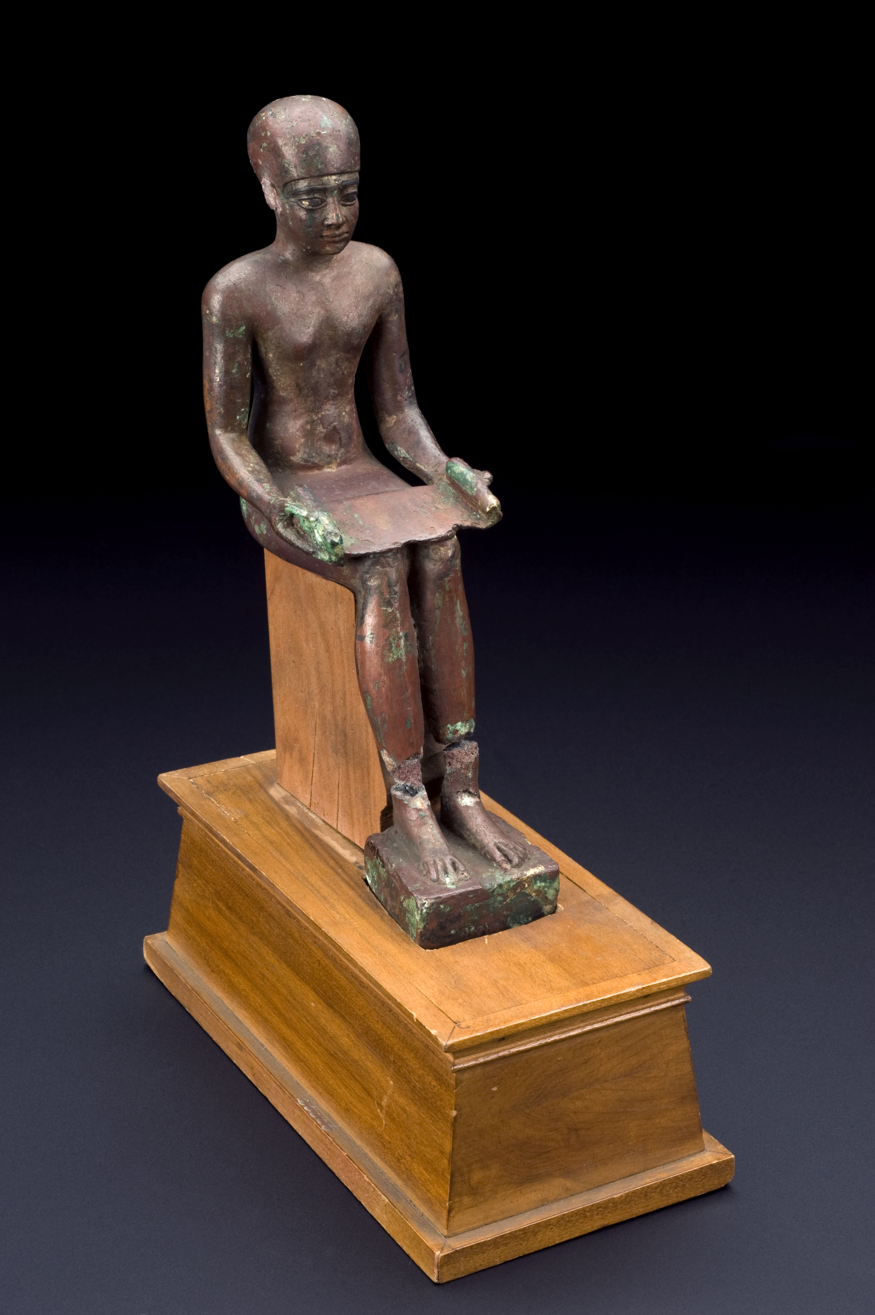 Imhotep (active sometime during c. 2700-2601 BCE) was the legendary architect of the step pyramids at Sakkarah, Egypt. He later achieved the status of a god and was patron of medical learning and healing. Imhotep became identified with the Greek god Asklepios. Imhotep’s Greek name was Imouthes. He is often shown in this pose with a shaven head and a piece of papyrus on his knees. maker: Unknown maker Place made: Egypt Wellcome Images Keywords: statue